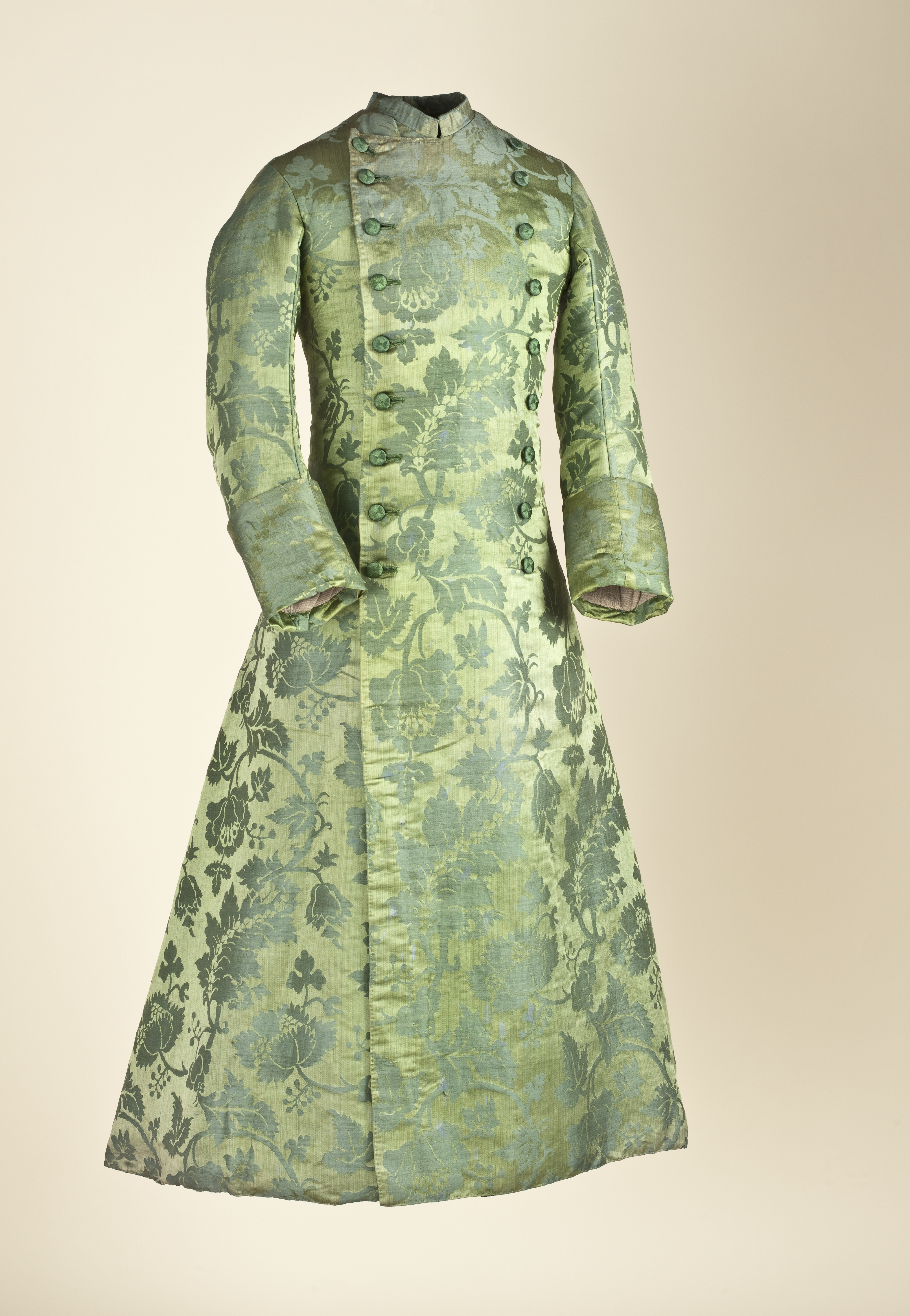 Man's fitted, double-breasted banyan or at-home robe, with cuffed, two-piece set-in sleeves and mandarin collar. Textile: China, 1700-50; robe: the Netherlands, 1750-1760.